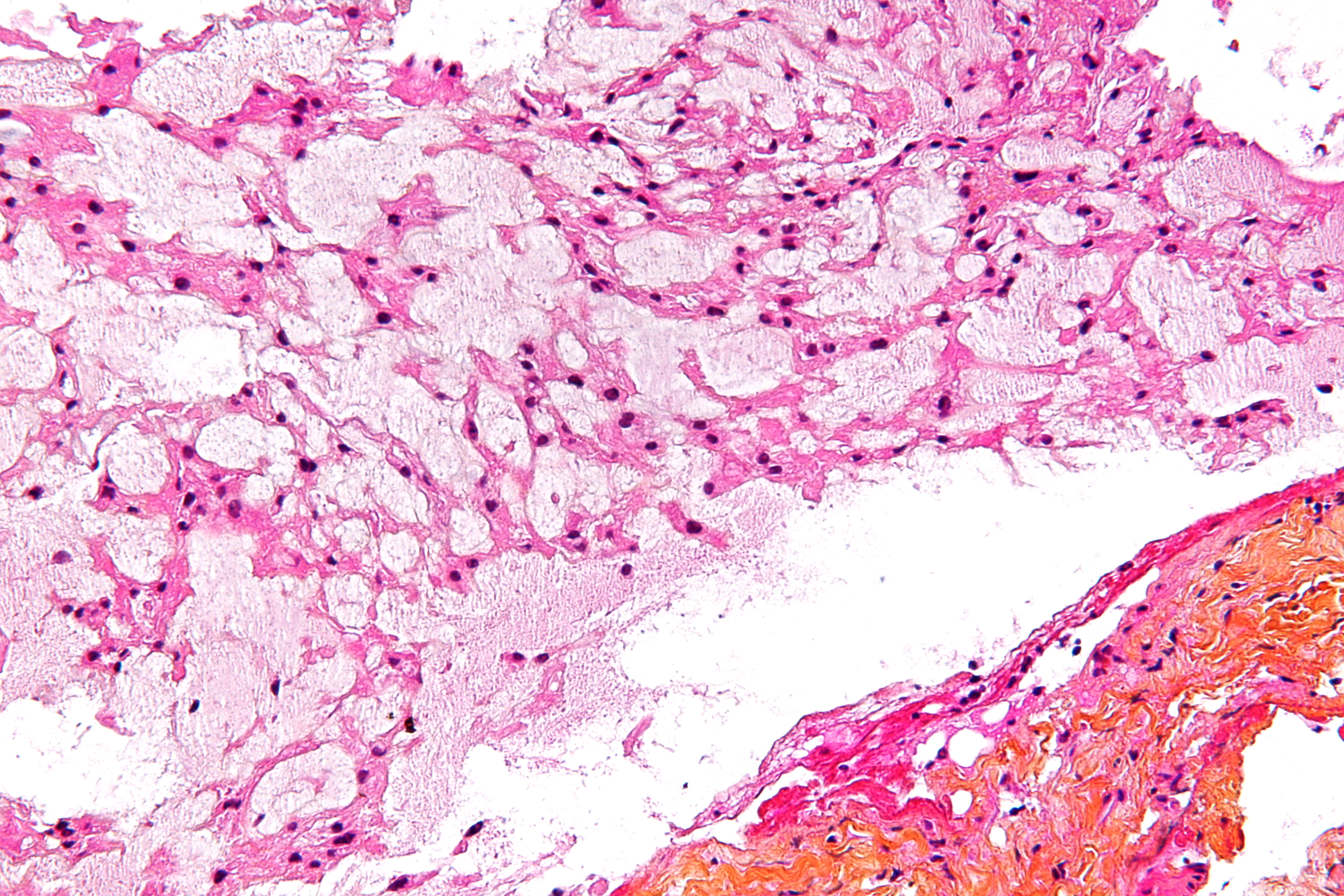 High magnification micrograph of a chordoma. HPS stain. Related images Low mag. Intermed. mag. High mag. Very high mag.